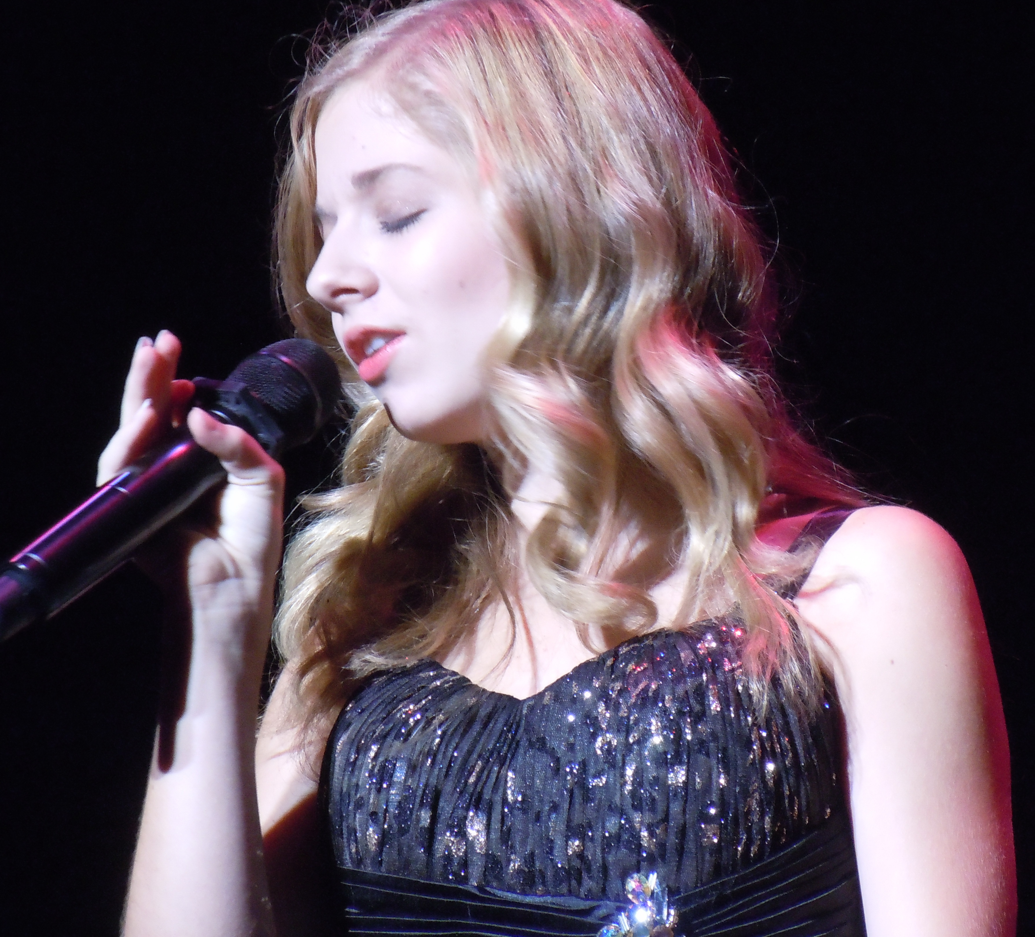 Photo of Jackie Evancho in concert on November 8, 2013